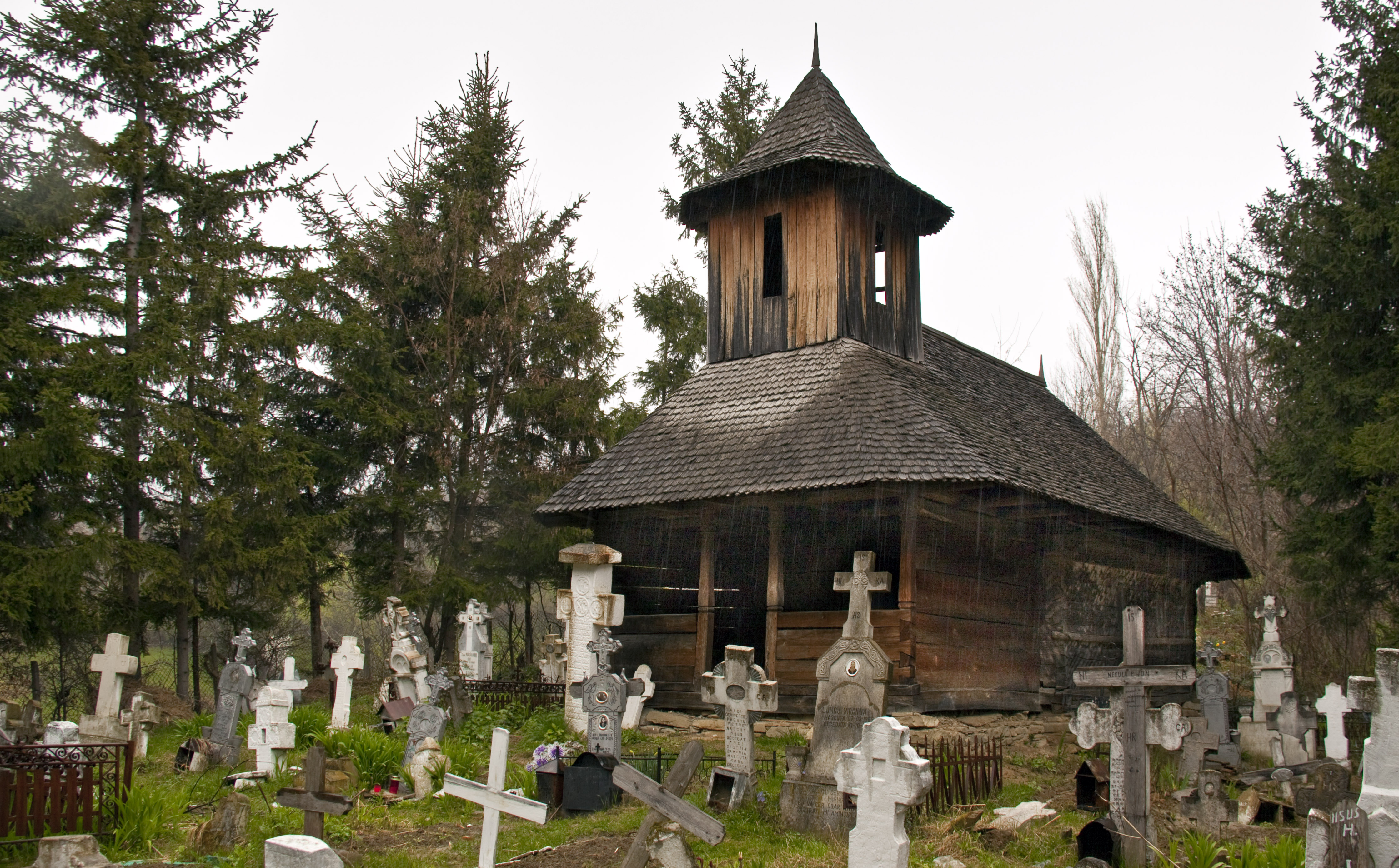 Mesteacăn, Dâmboviţa county, Romania: the wooden church, South-West.